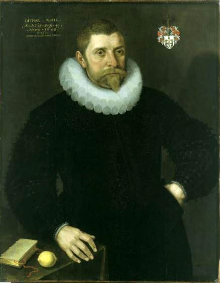 Portrait of Ditmar Kohl